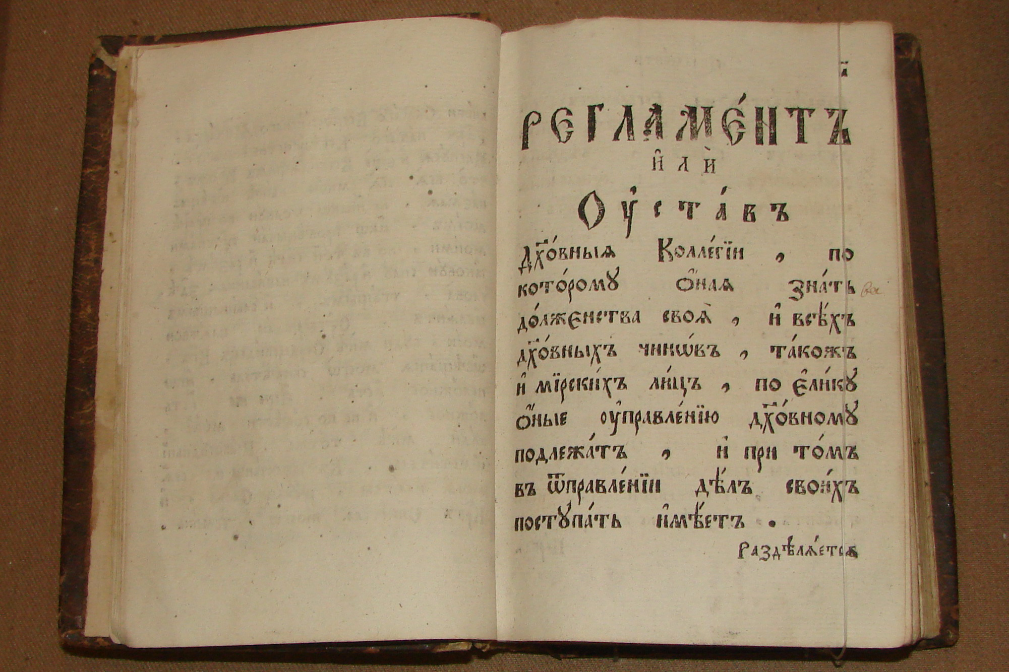 Russian ancient book, «Spiritual Rules», 1721 year